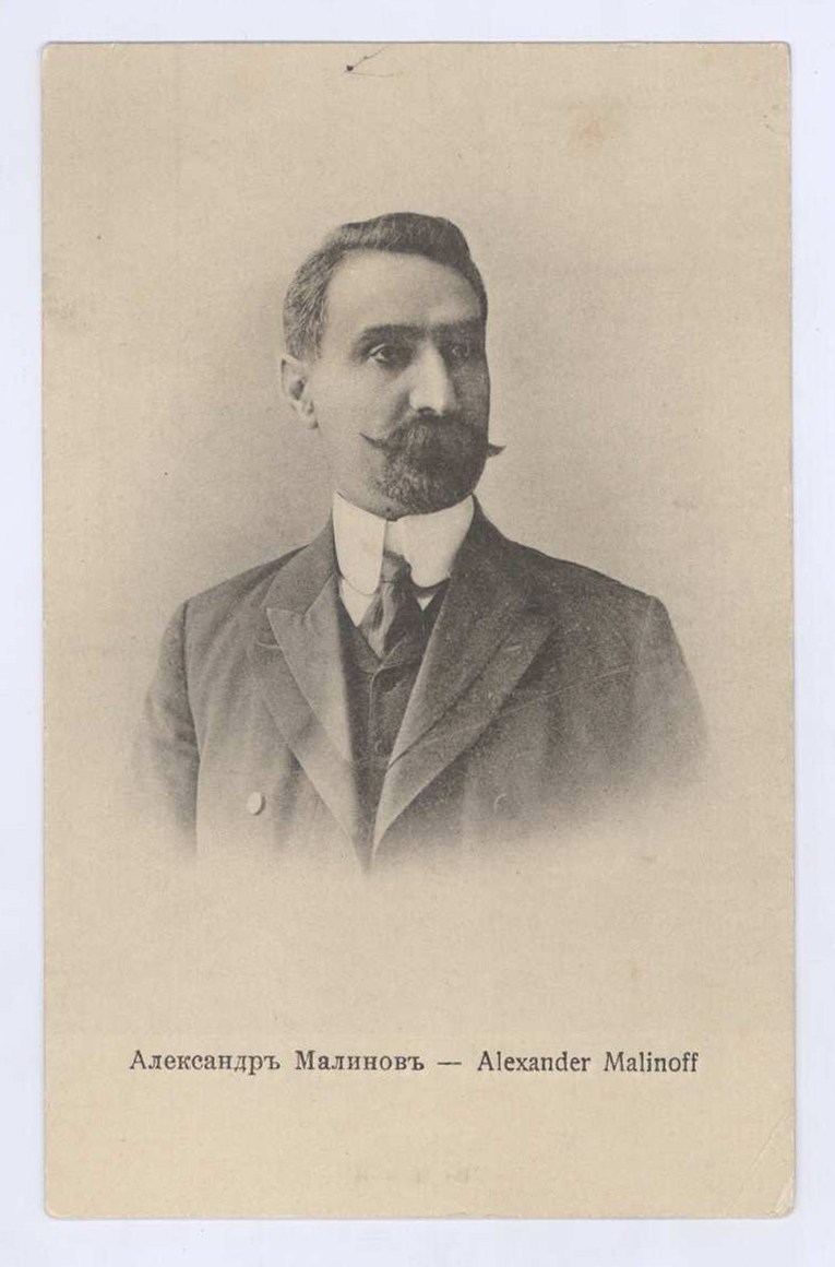 Aleksandar Malinov, Bulgarian politician